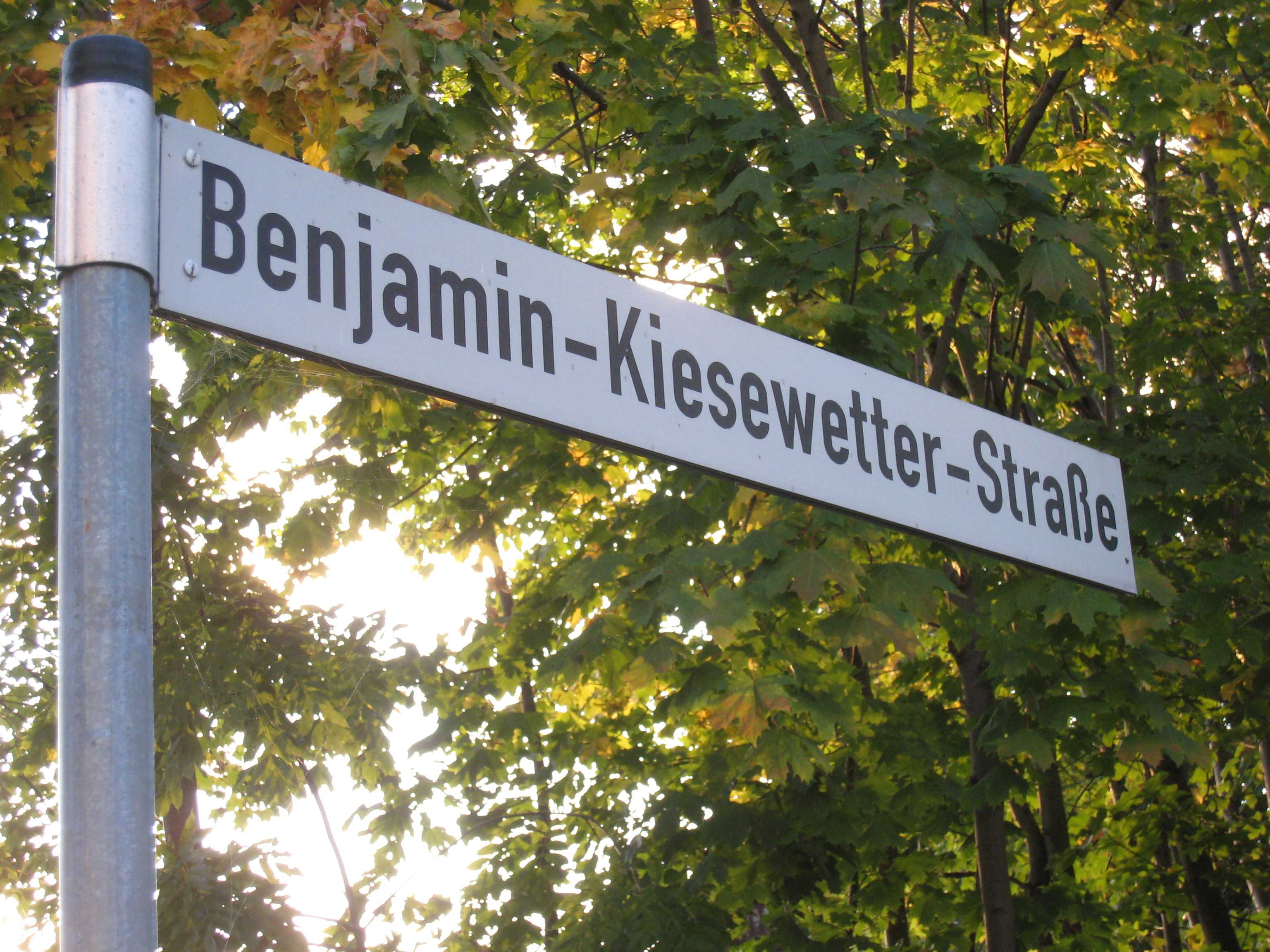 Benjamin Kiesewetter Street, Arnstadt